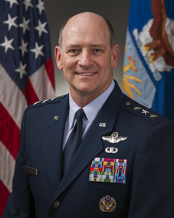 Lt Gen in US Air Force